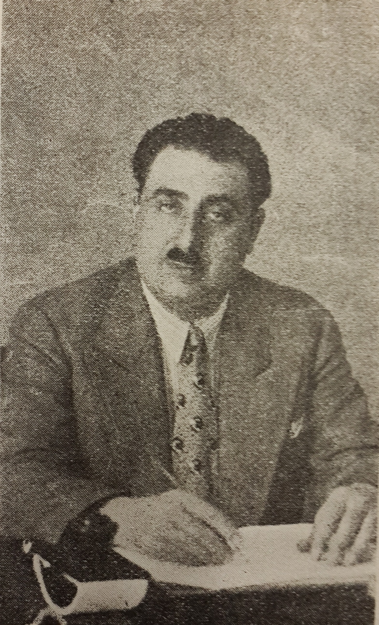 Sabri Hamadé, Speaker of the Lebanese Parliament.